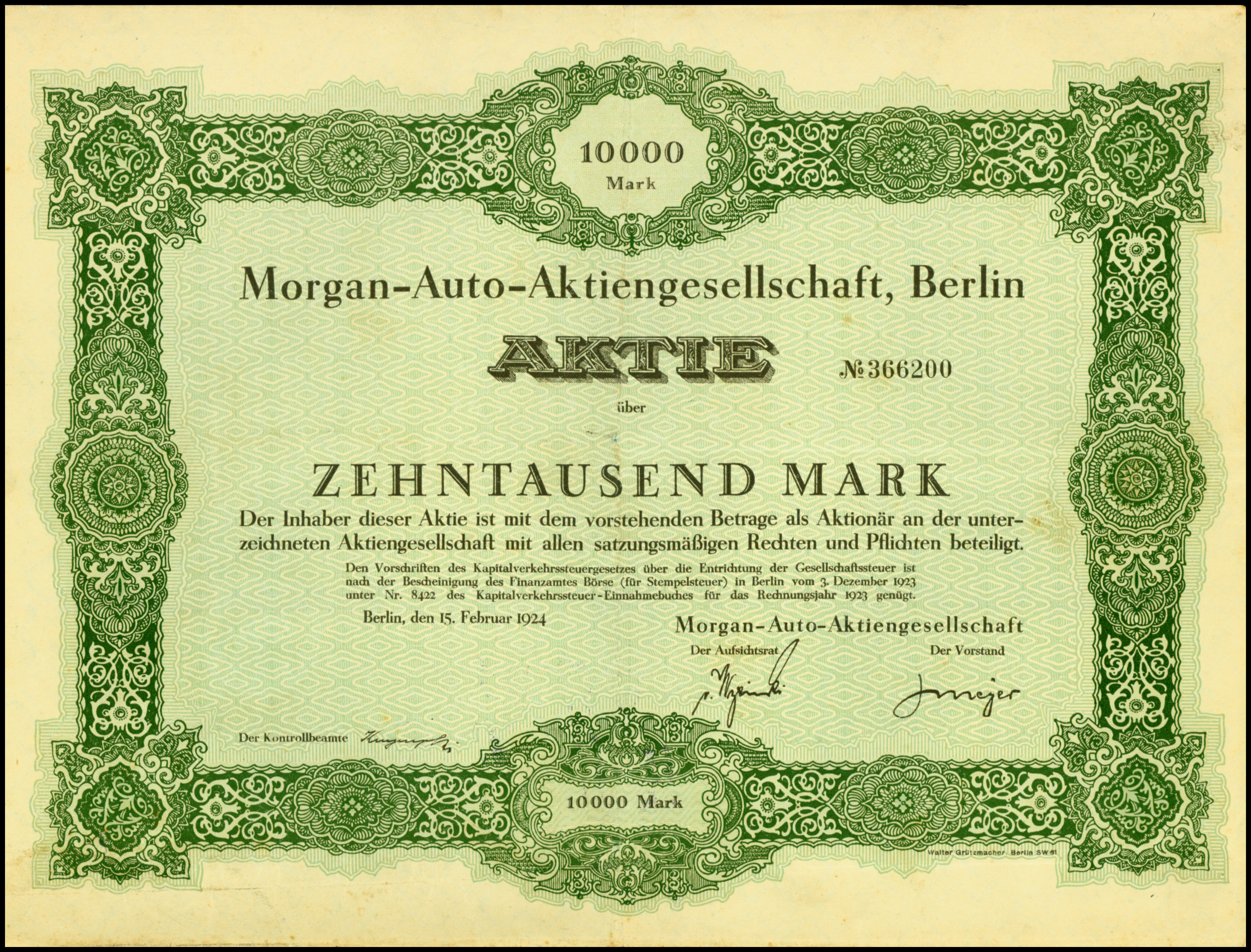 Share of the Morgan-Auto-AG, issued 15. November 1924